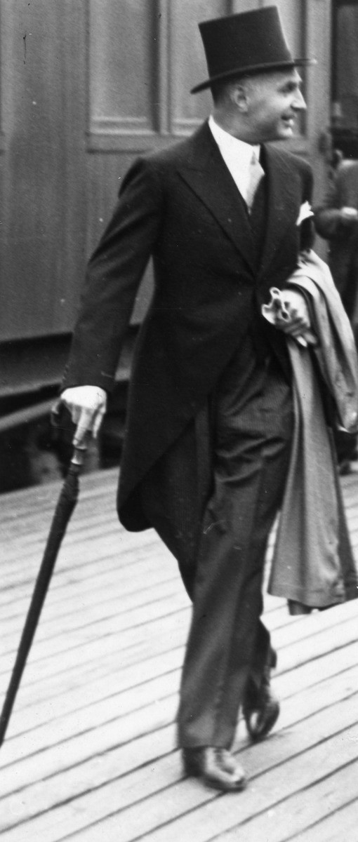 Norwegian diplomat Rasmus Skylstad (1893–1972), photographed about 1935